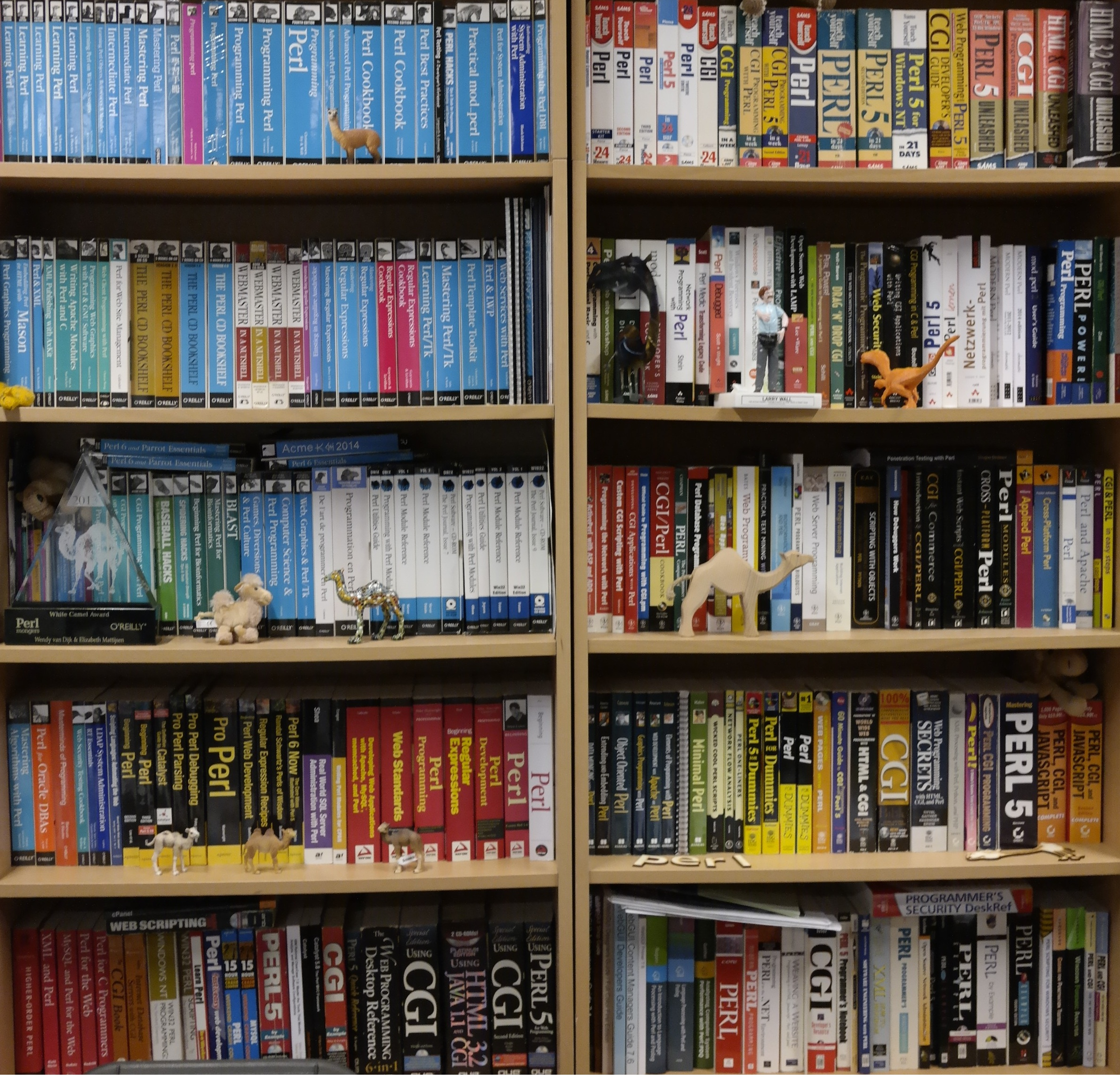 Bookshelf with Perl books, FOSDEM, Brussels